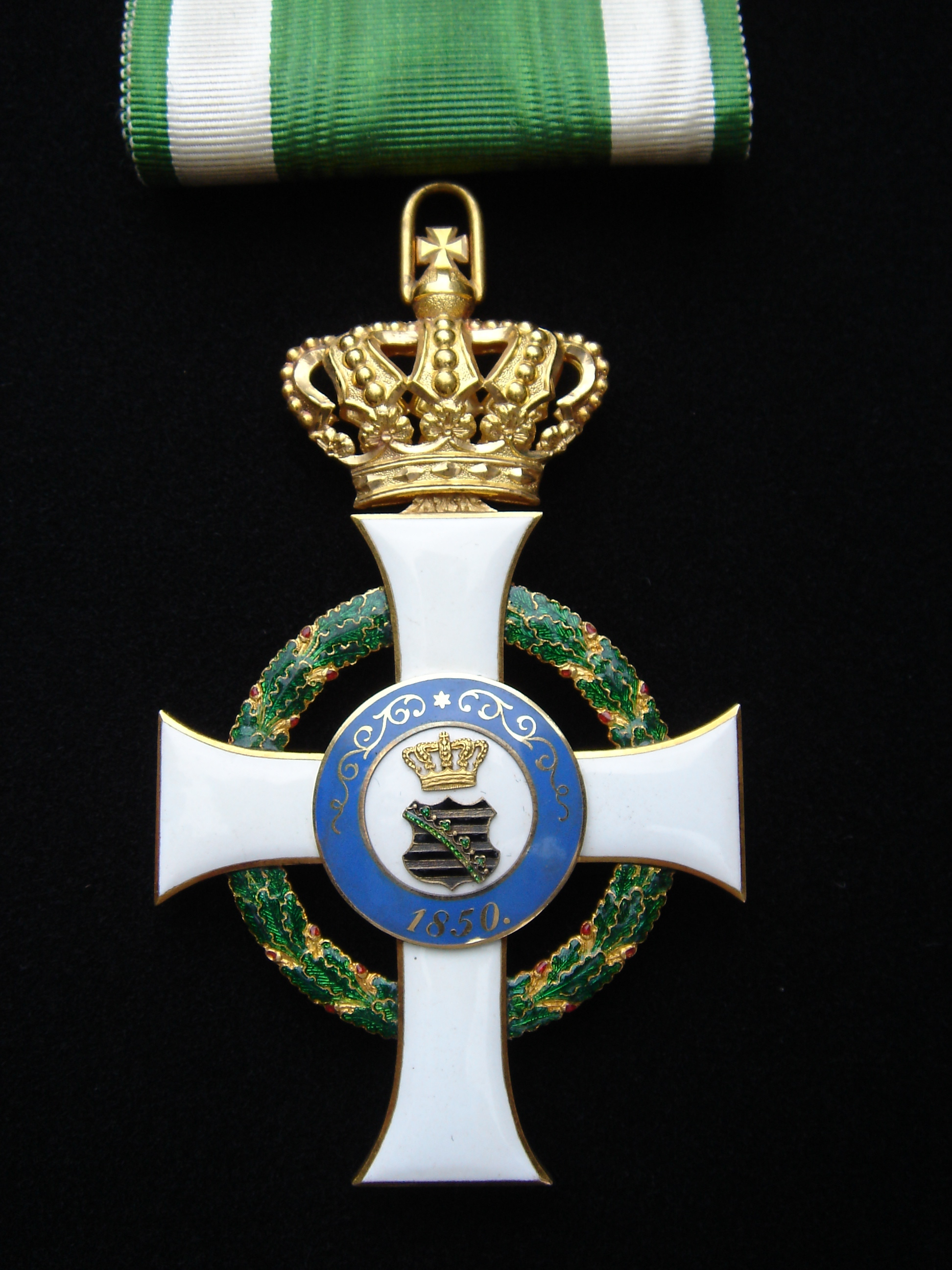 IMPERIAL GERMAN SAXONY KINGDOM ALBRECHTS ORDER KNIGHTS CROSS, ALBERTUS ANIMOSUS – 1850 (back)